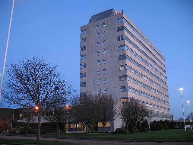 Fujitsu The ICL building was opened by HM the Queen in 1976. ICL was later taken over by Fujitsu.